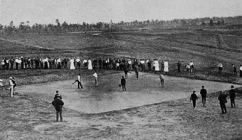 Square Green at Pinehurst #1 during the United North and South Amateur Championship 1904